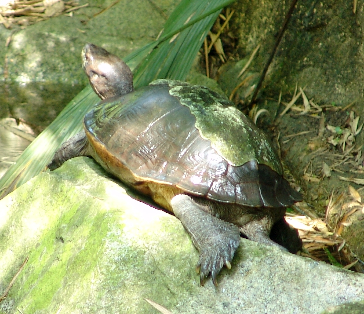 Giant Asian Pond Turtle (Heosemys grandis) in Singapore Zoo